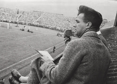 Journalist Gust De Muynck commenting live the (association) football match Belgium-Netherlands on 3 May 1931